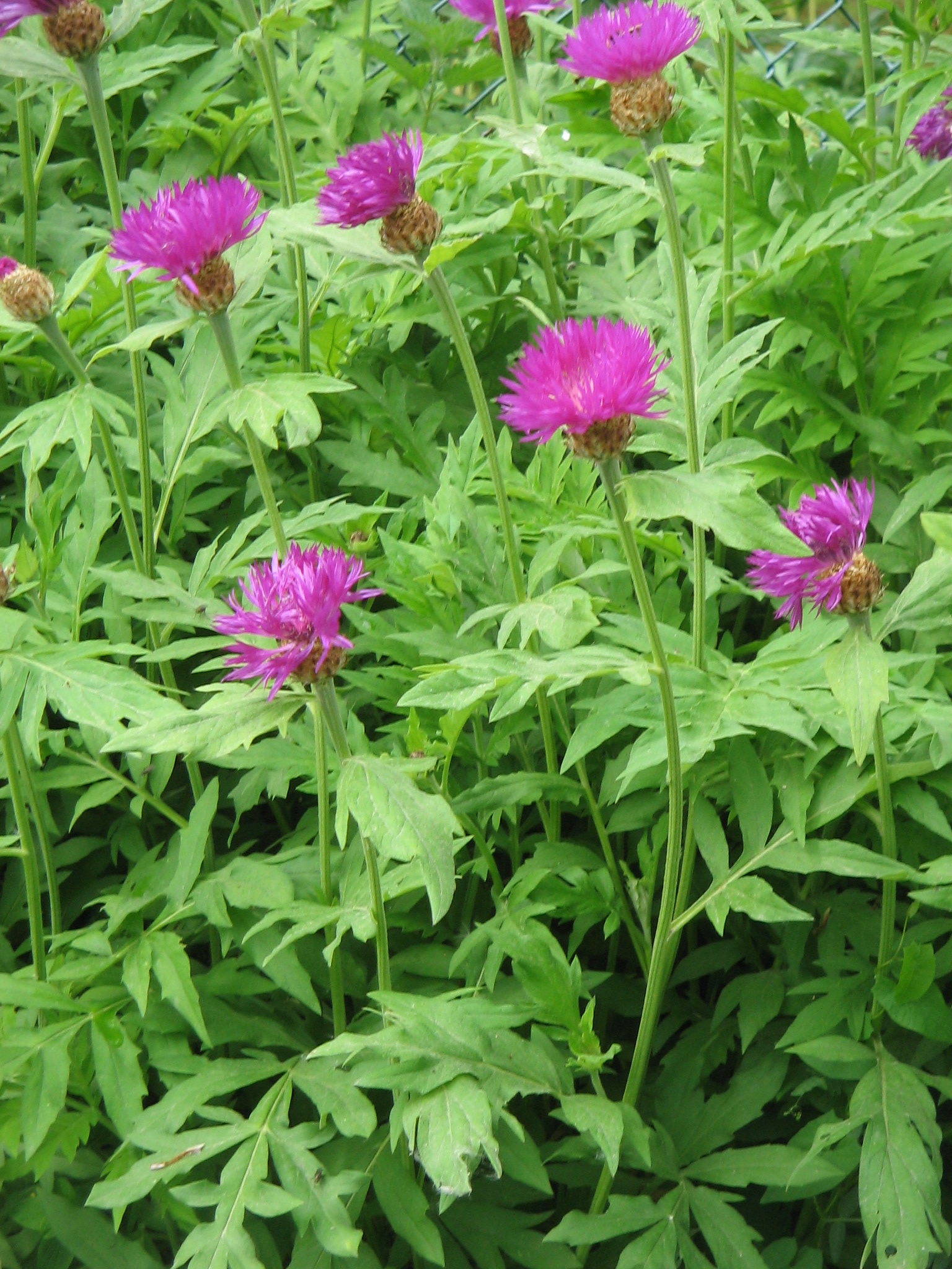 Centaurea dealbata